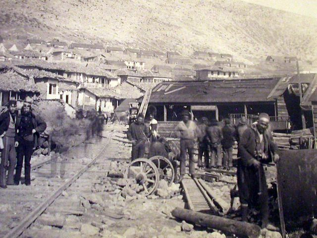 English railway in Balaklava during Crimea War